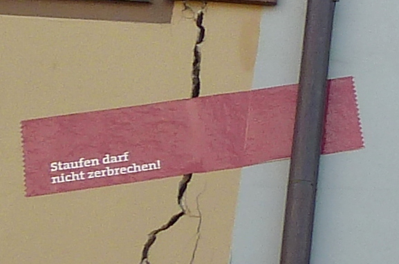 Cracks in the historic city hall at Staufen, Germany possibly due to damage from geothermal drilling